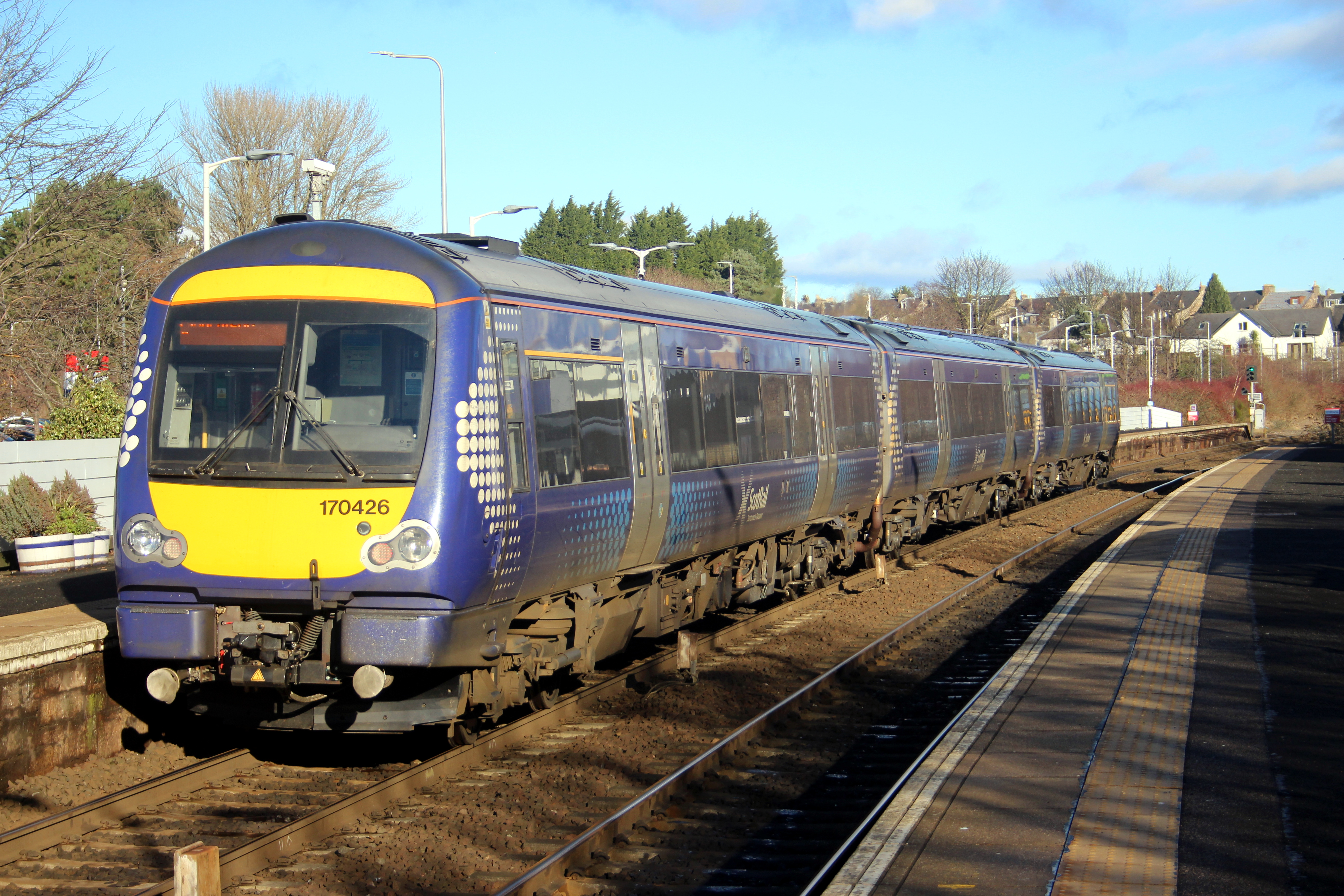 A Class 170 diesel unit at Kirkcaldy, working a Northbound service for ScotRail in February 2019. This unit was number 170426, a three car set.